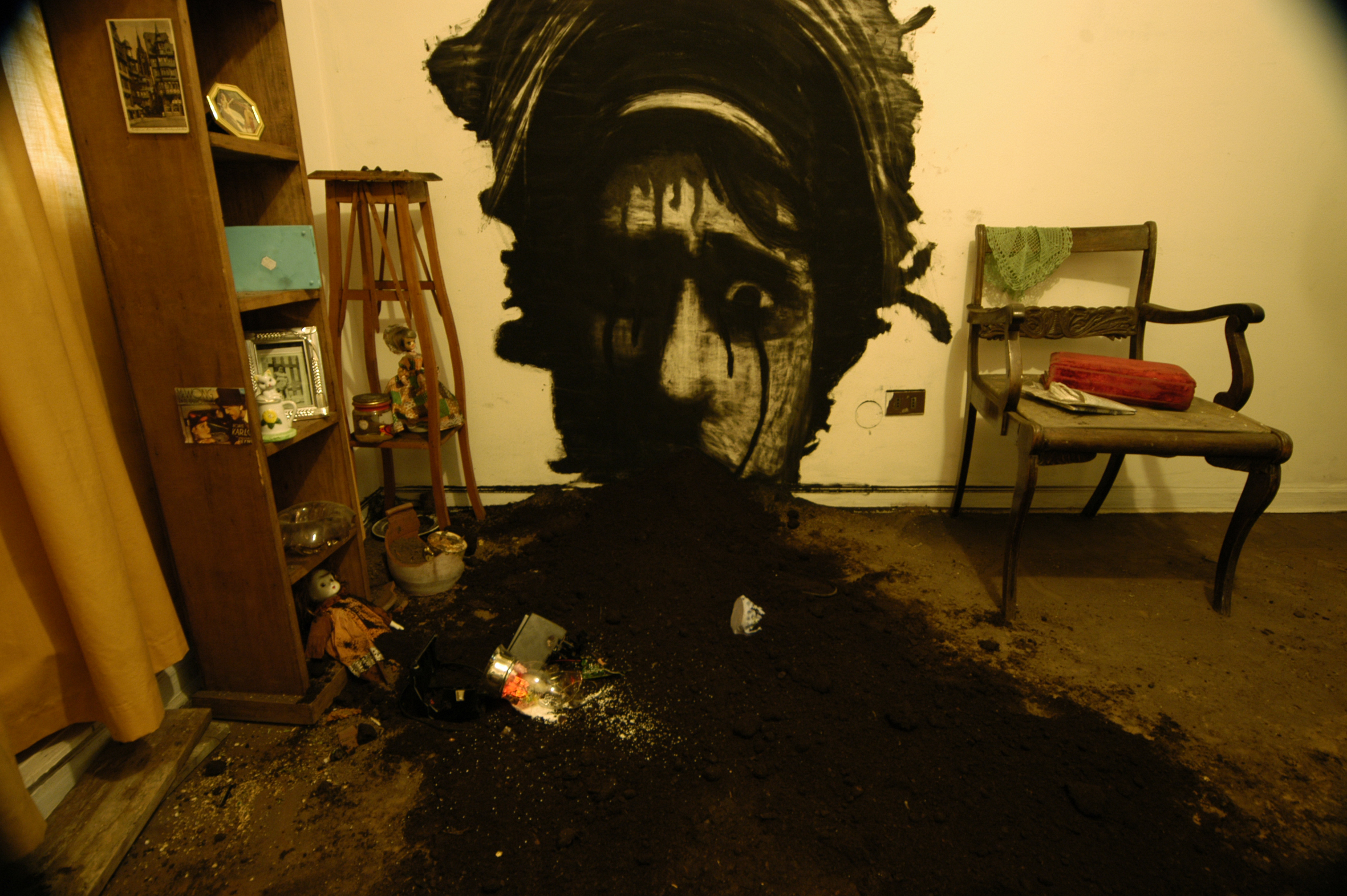 Cristobal León and Joaquín Cociña, Lucia, 2007